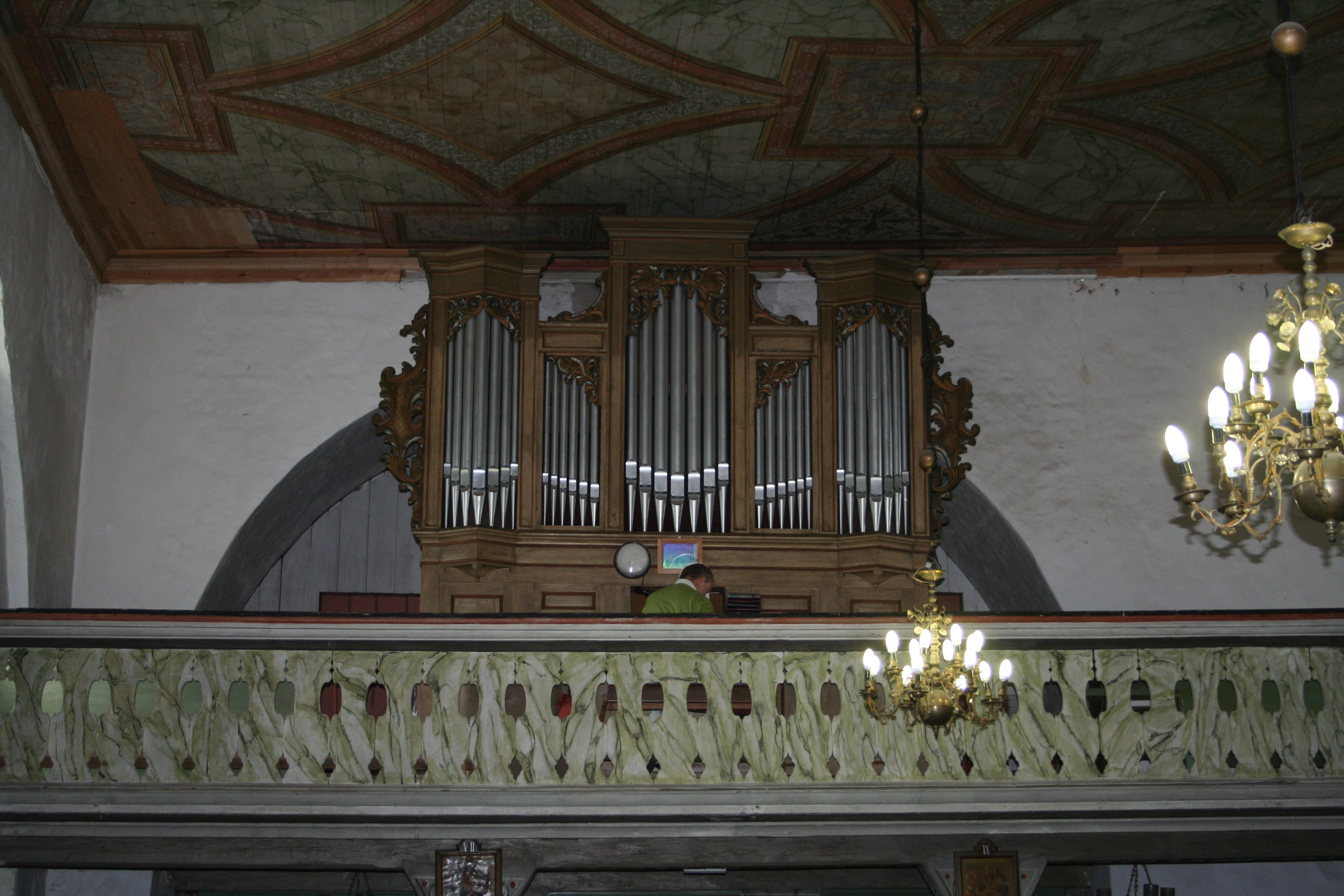 Holy Cross church in Szestno